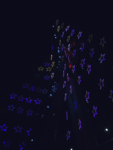 Bridge in São Paulo City, Brazil.